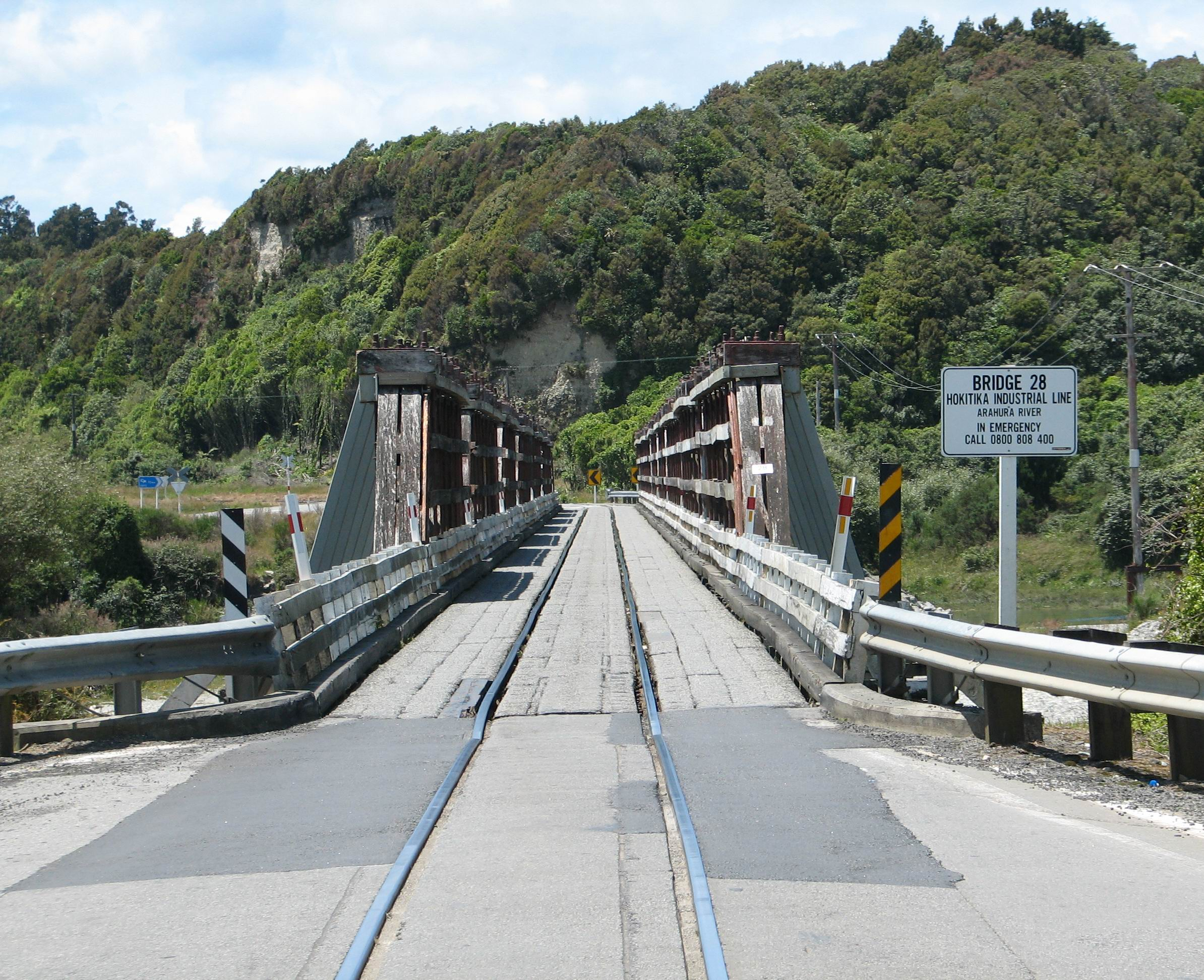 The Arahura River road/rail bridge view from the southern side.